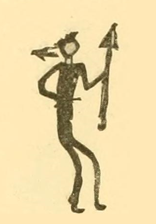 Battiste Good's Lakota Winter Count for the year 1843-1844. "Brought-home-the-magic-arrow-Winter".